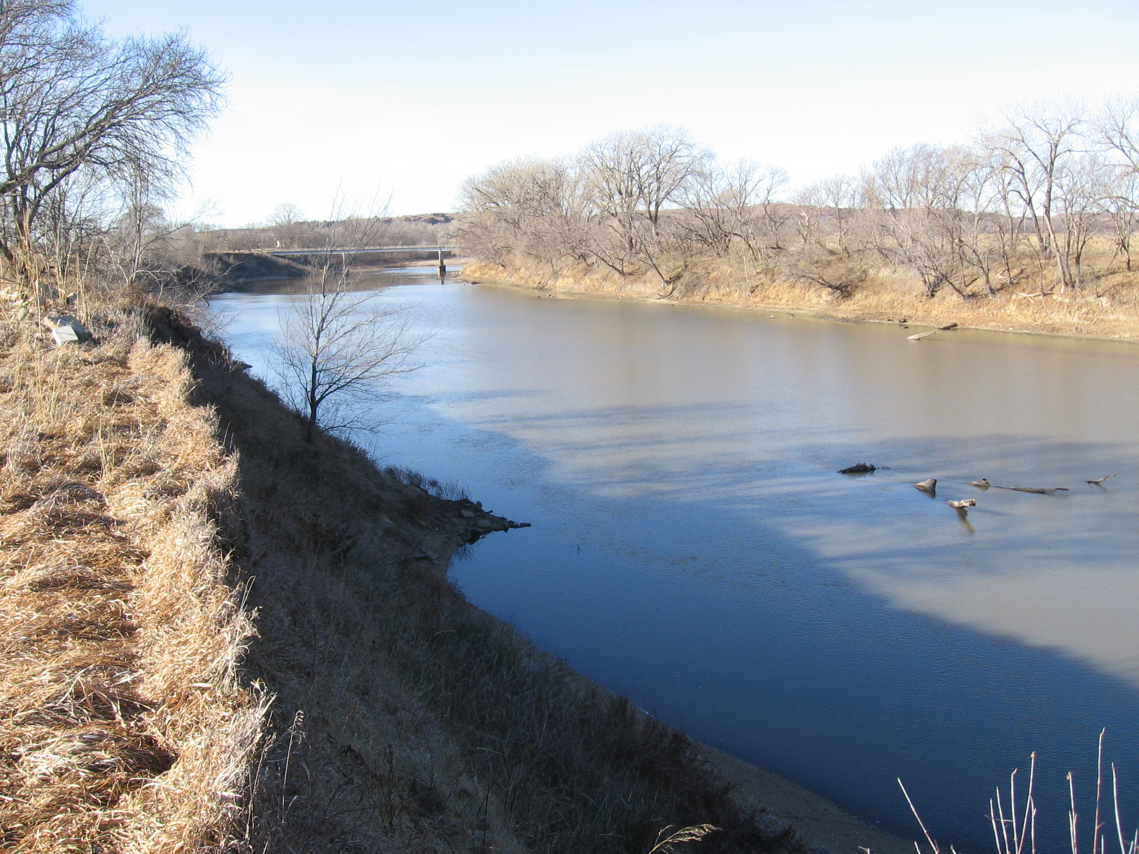 My photo from December 2006